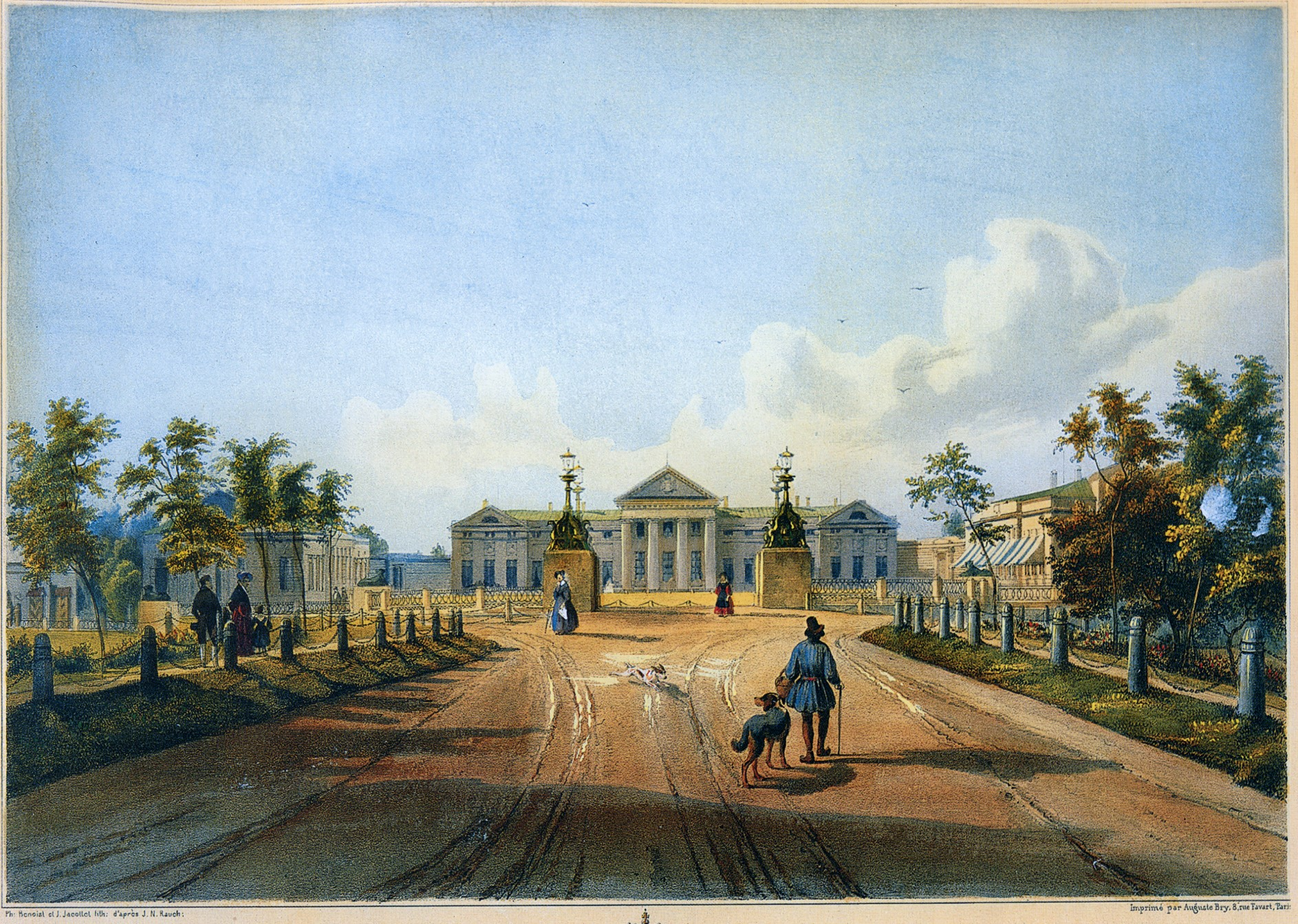 The end of linden avenue and palace in Kuzminki by Johann Nepomuk Rauch, 1820-es